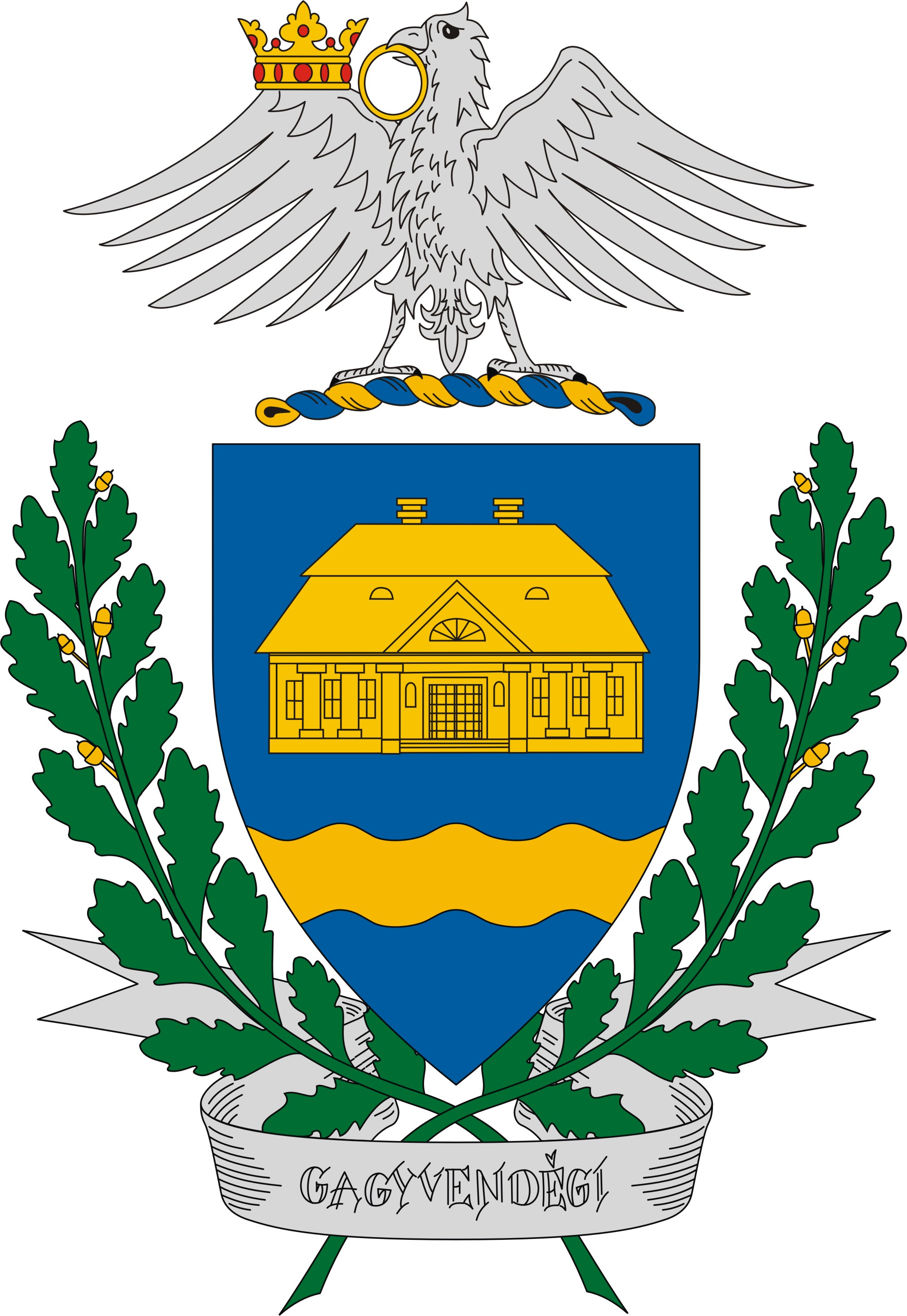 Coat of arms of Gagyvendégi, Hungary